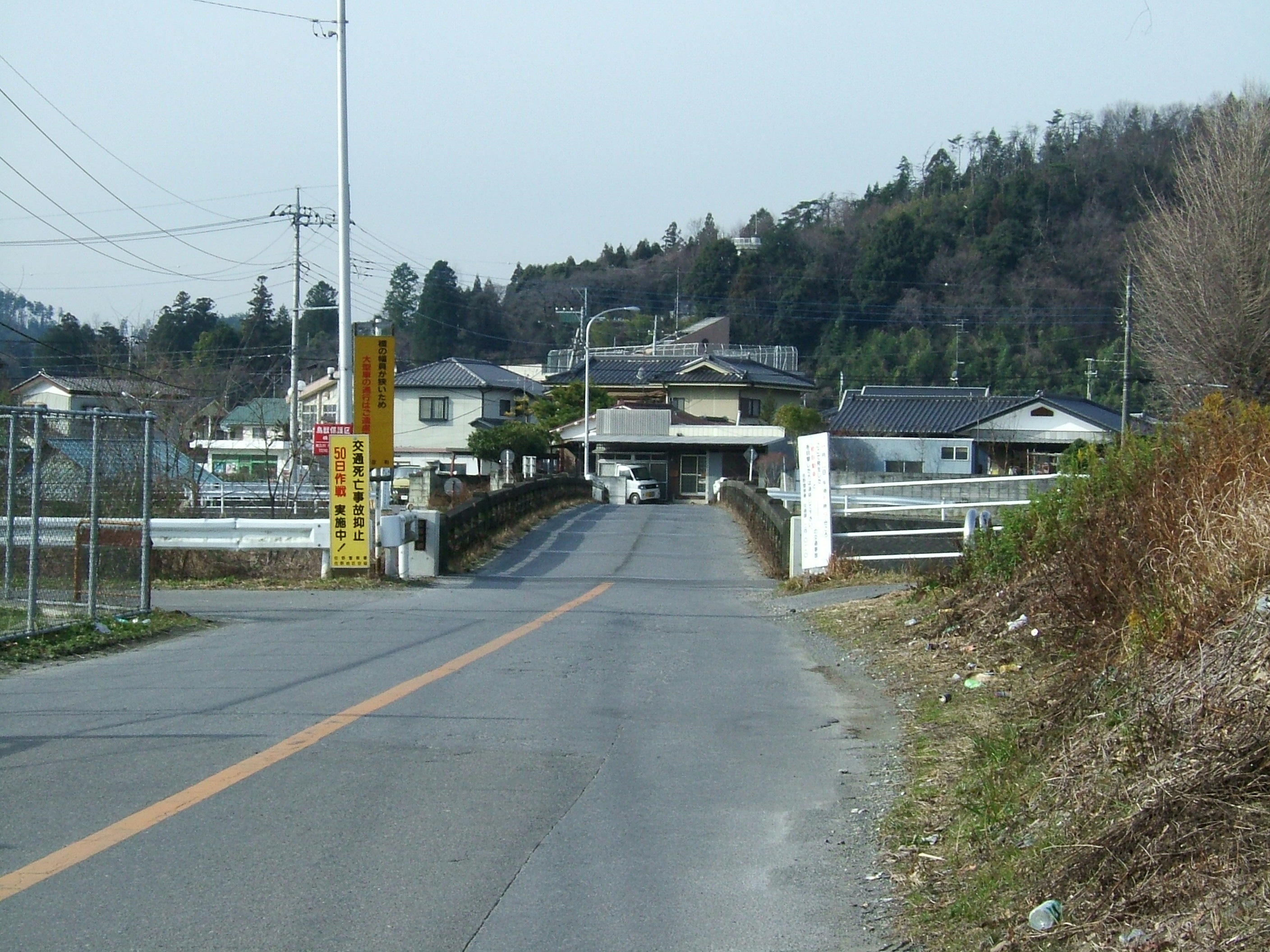 Asogawabashi Bridge, crossing Akiyamagawa river